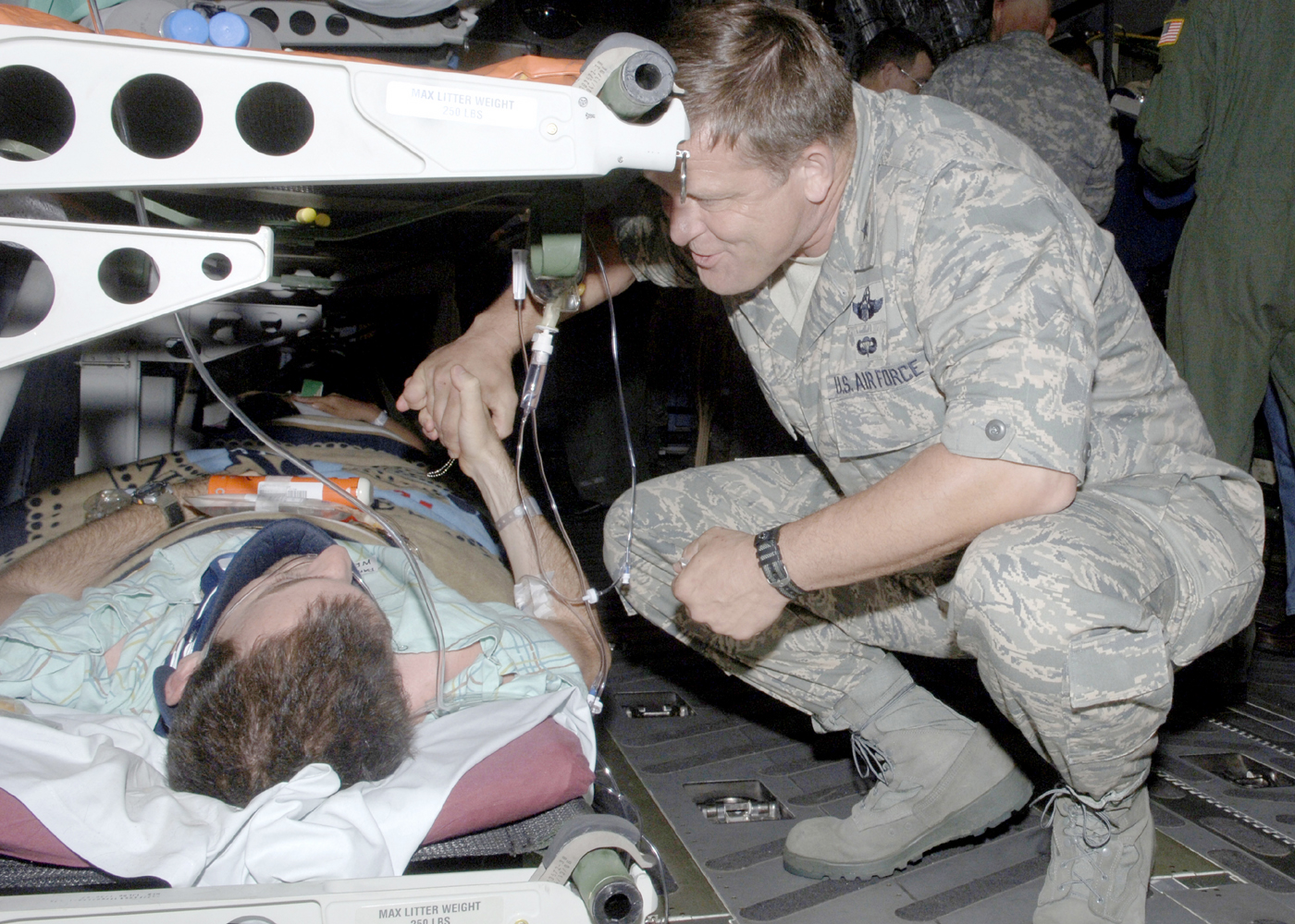 Brig. Gen. Frank Gorenc, Air Force District of Washington commander, thanks an injured service member for his service during his visit to the Aero medical Staging Facility July 10.